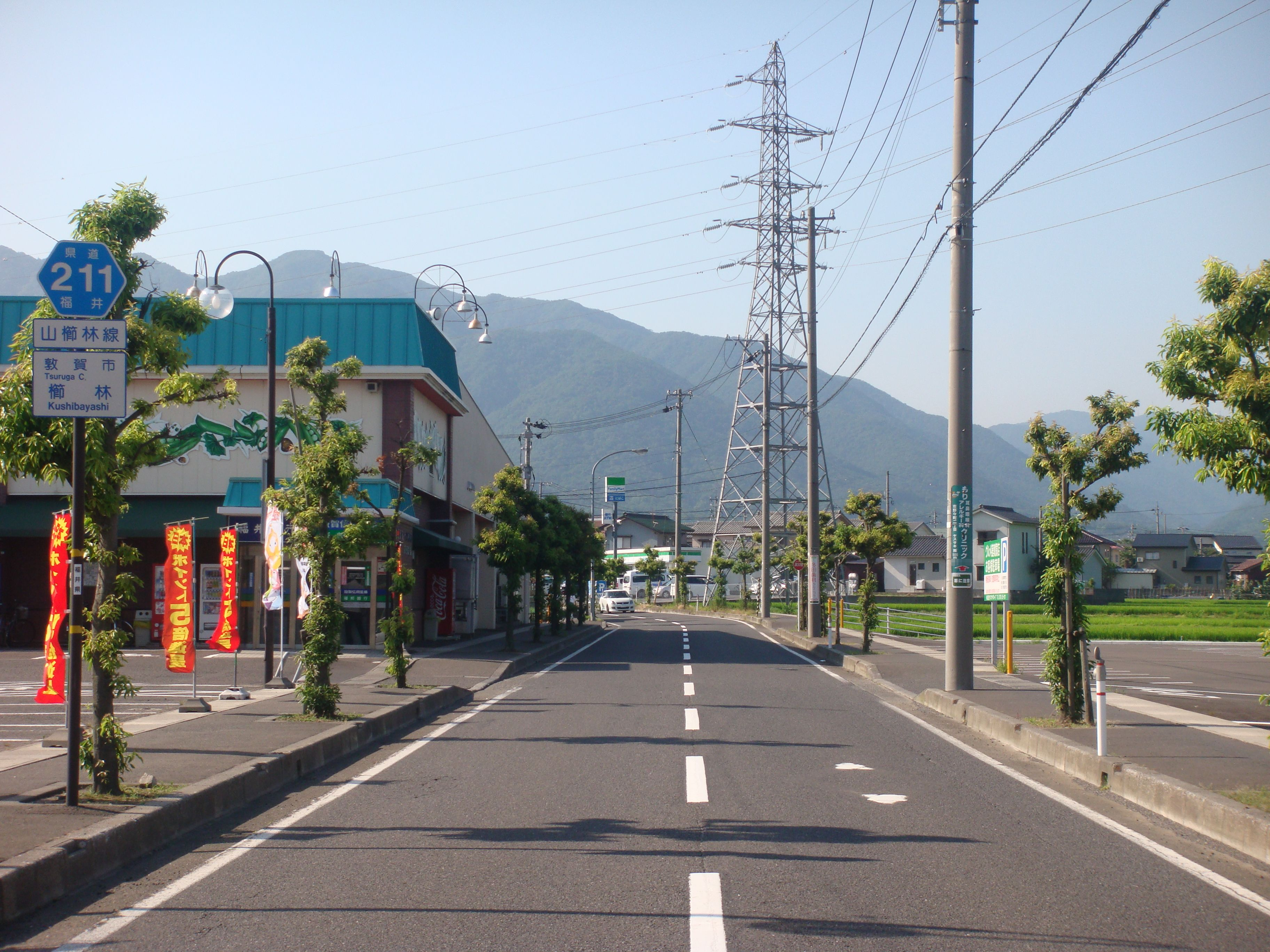 Fukui Prefectural Road Route 211（Yama-Kushibayashi Line） Place - Kushibayashi,Tsuruga City,Fukui Prefecture,Japan Date - July 16, 2011 Format - JPEG, 3648x2736pixel, 24bit colors Photographer - NALA Wiki (talk)